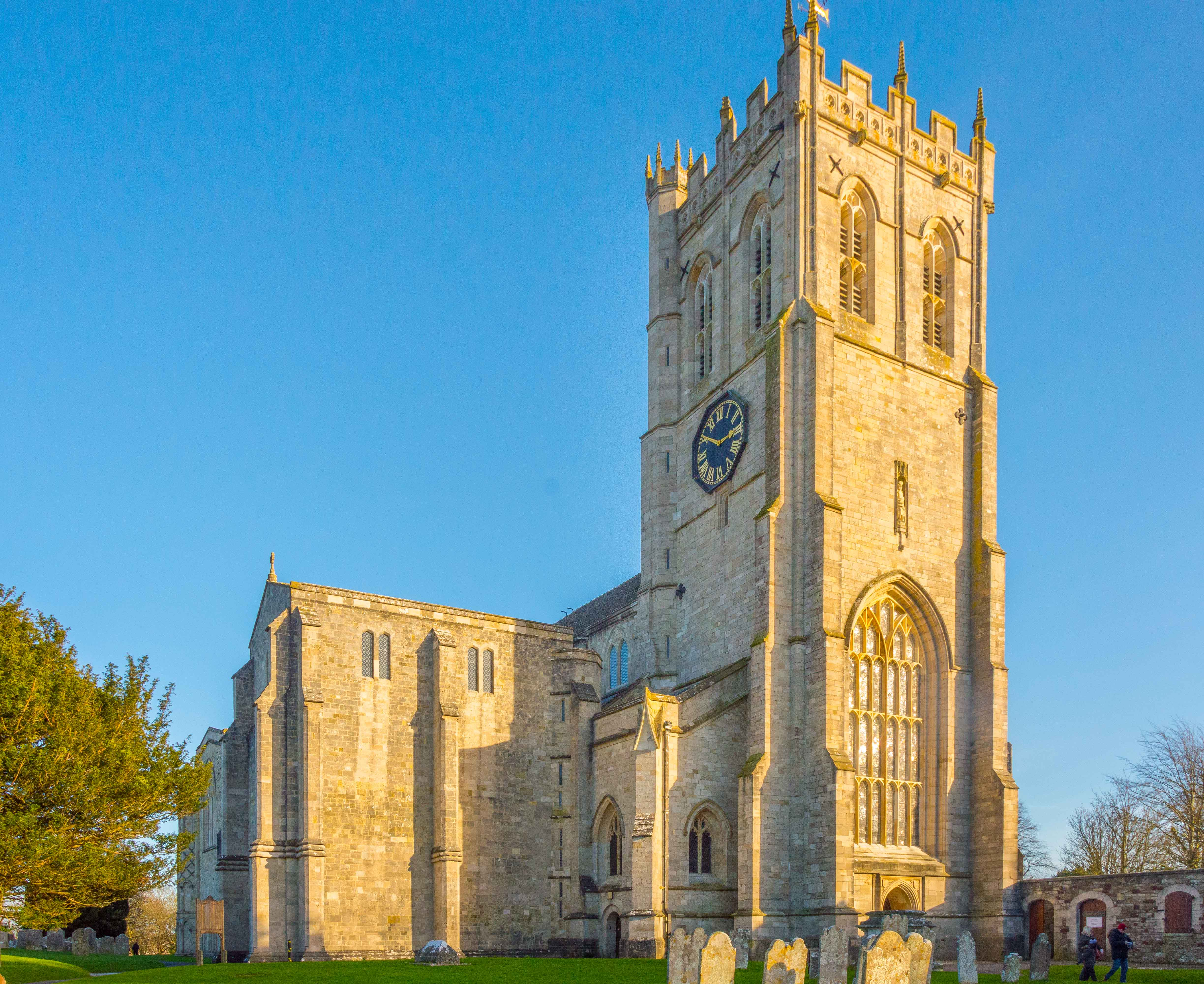 The huge priory church in Christchurch Dorset is larger than 21 English Anglican Cathedrals.